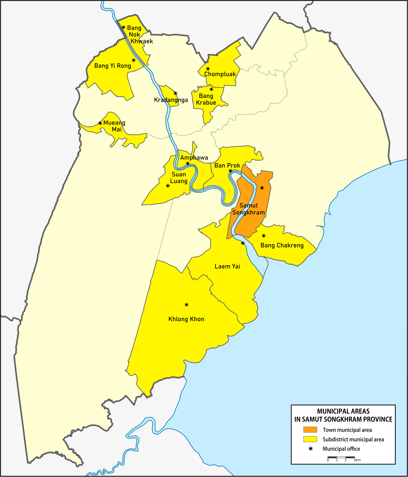 Map of municipal areas in Samut Songkhram Province: Town municipalities (thetsaban mueang) Subdistrict municipalities (thetsaban tambon)